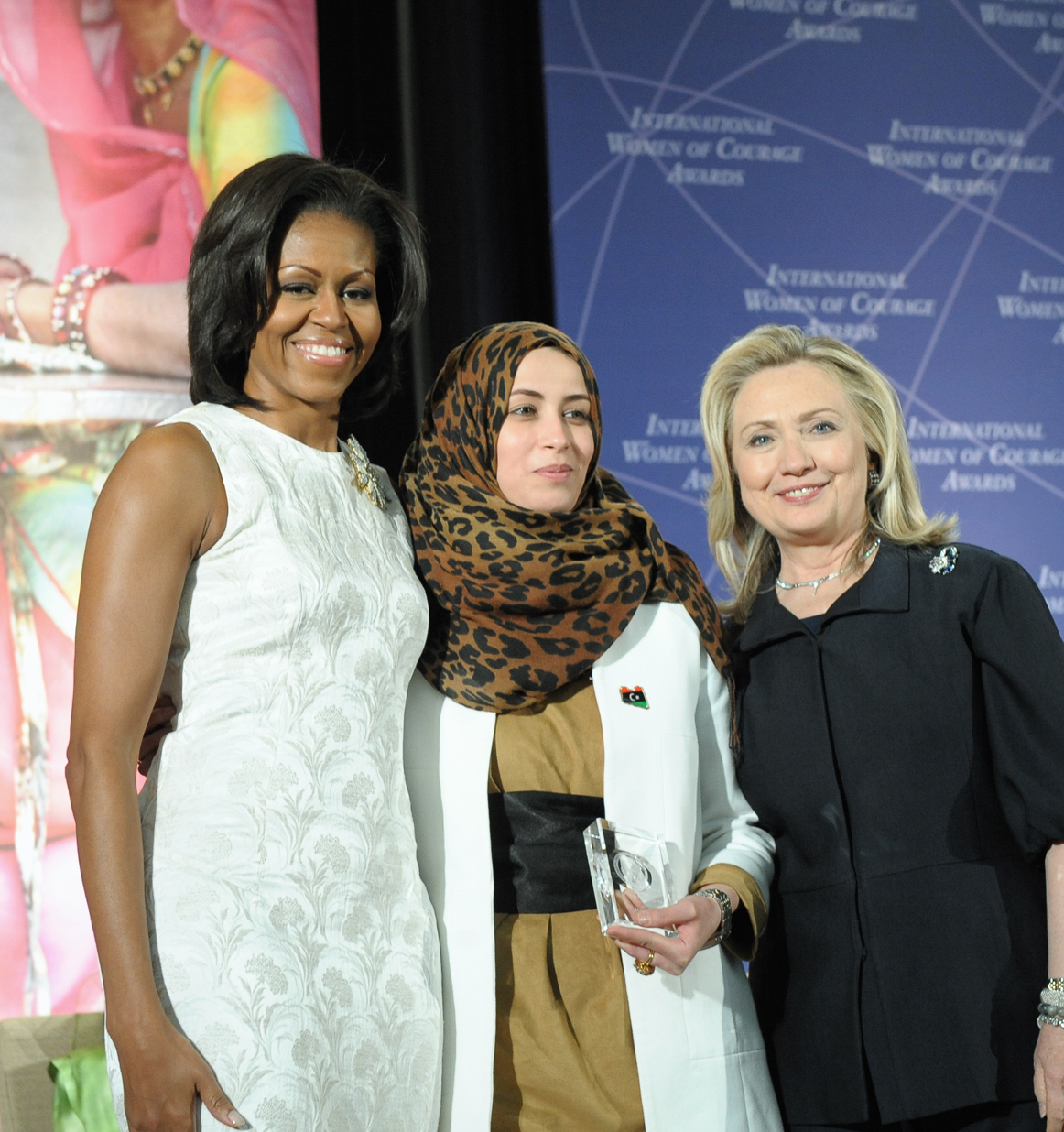 2012 International Women of Courage Awards Ceremony Remarks Hillary Rodham Clinton Secretary of State Melanne Verveer Ambassador-at-Large for Global Women's Issues First Lady Michelle Obama Dean Acheson Auditorium Washington, DC March 8, 2012